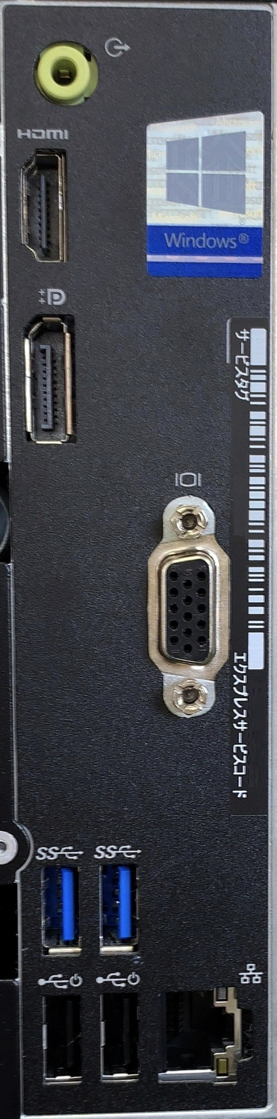 Dell Optiplex 3050 Back Panel Interface